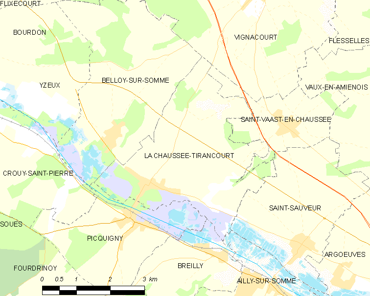 Map of French municipality La Chaussée-Tirancourt